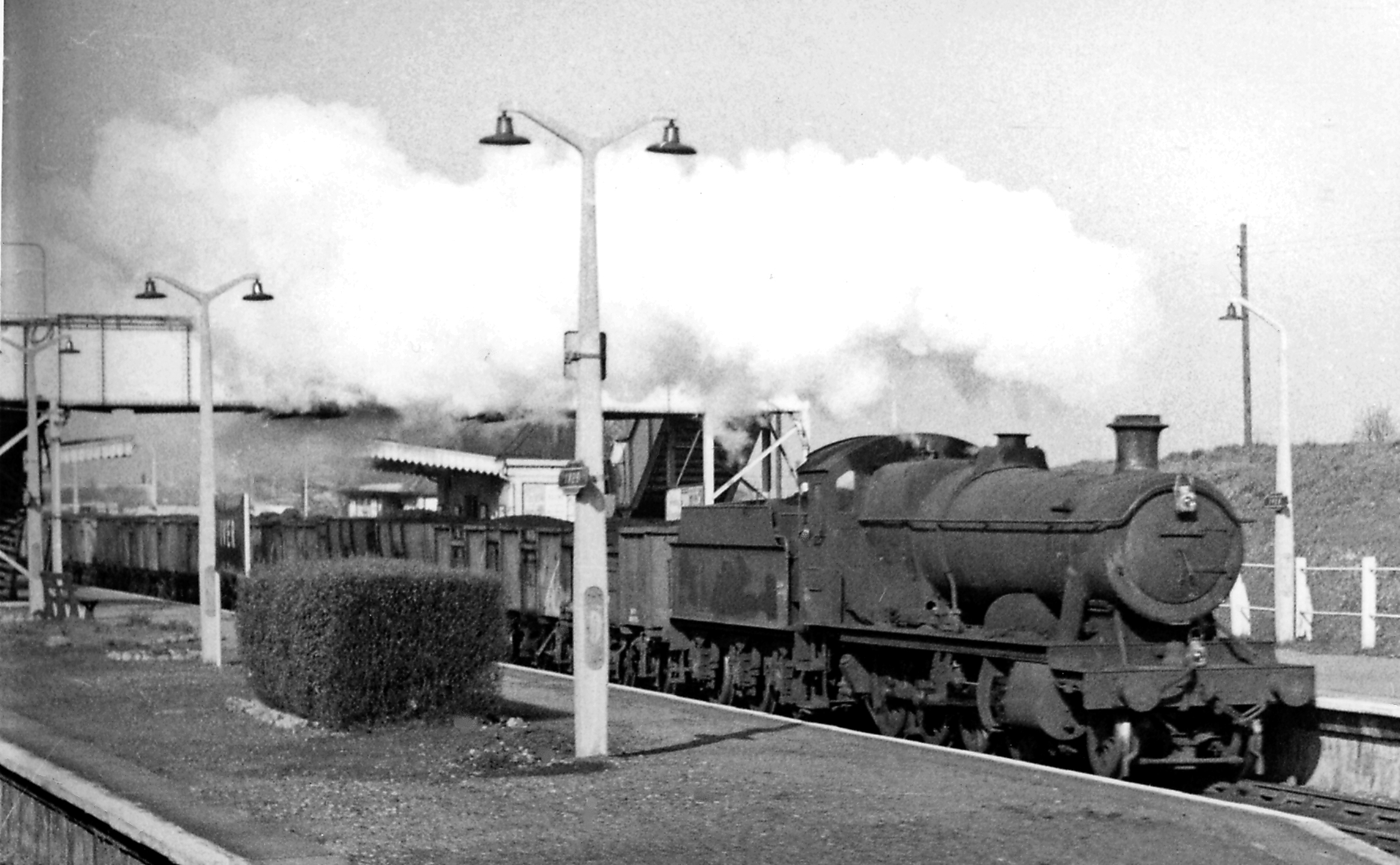 Iver station, with Up coal train View westward from a Down express, towards Reading etc.: ex-GWR main line from Paddington. The Class H coal train on the Up Slow is headed by Collett '2884' class 2-8-0 No. 3864 (built 11/42, withdrawn 7/65).